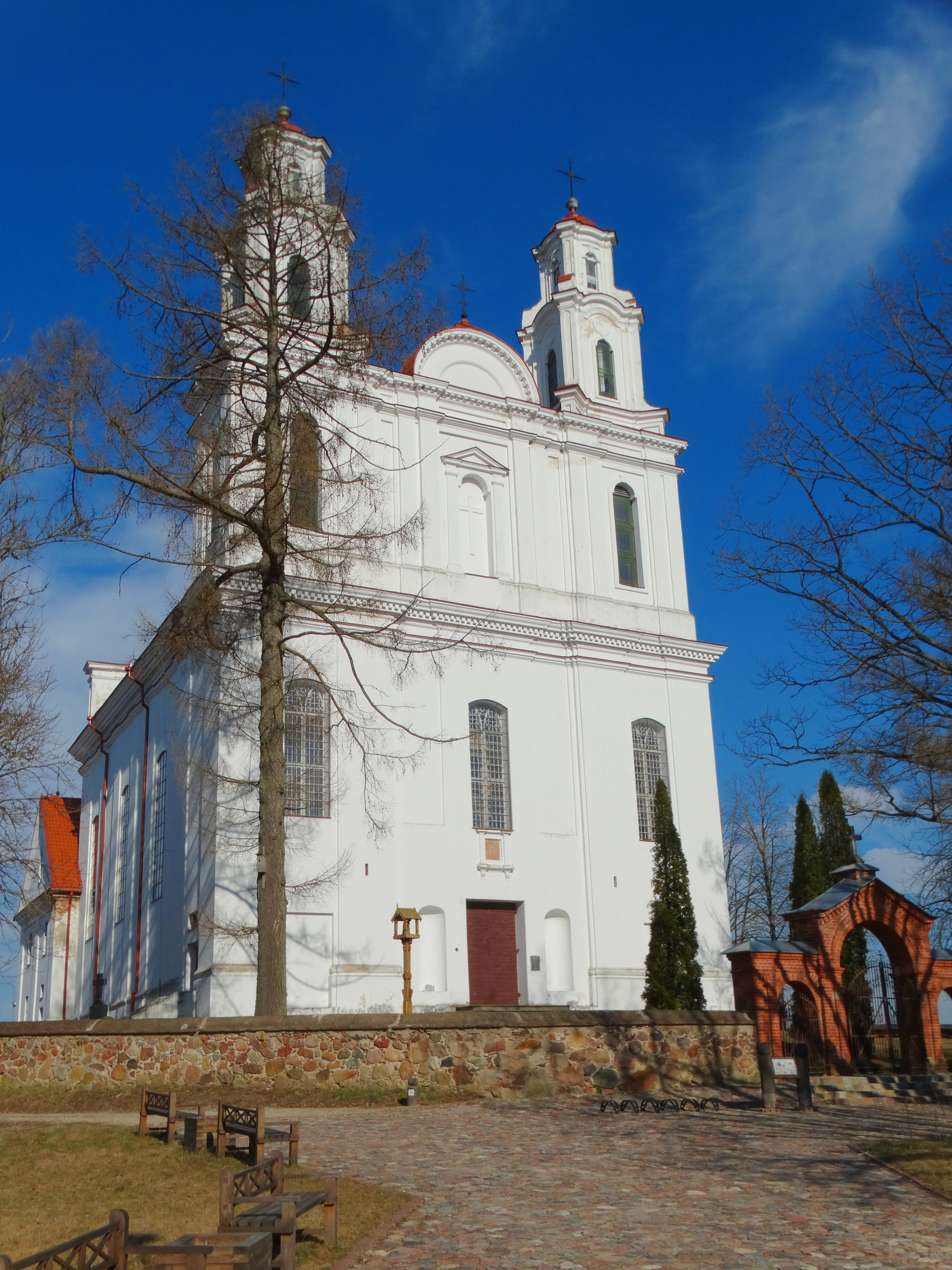 Church of St. James the Apostle, Kurtuvėnai, Šiauliai district, Lithuania